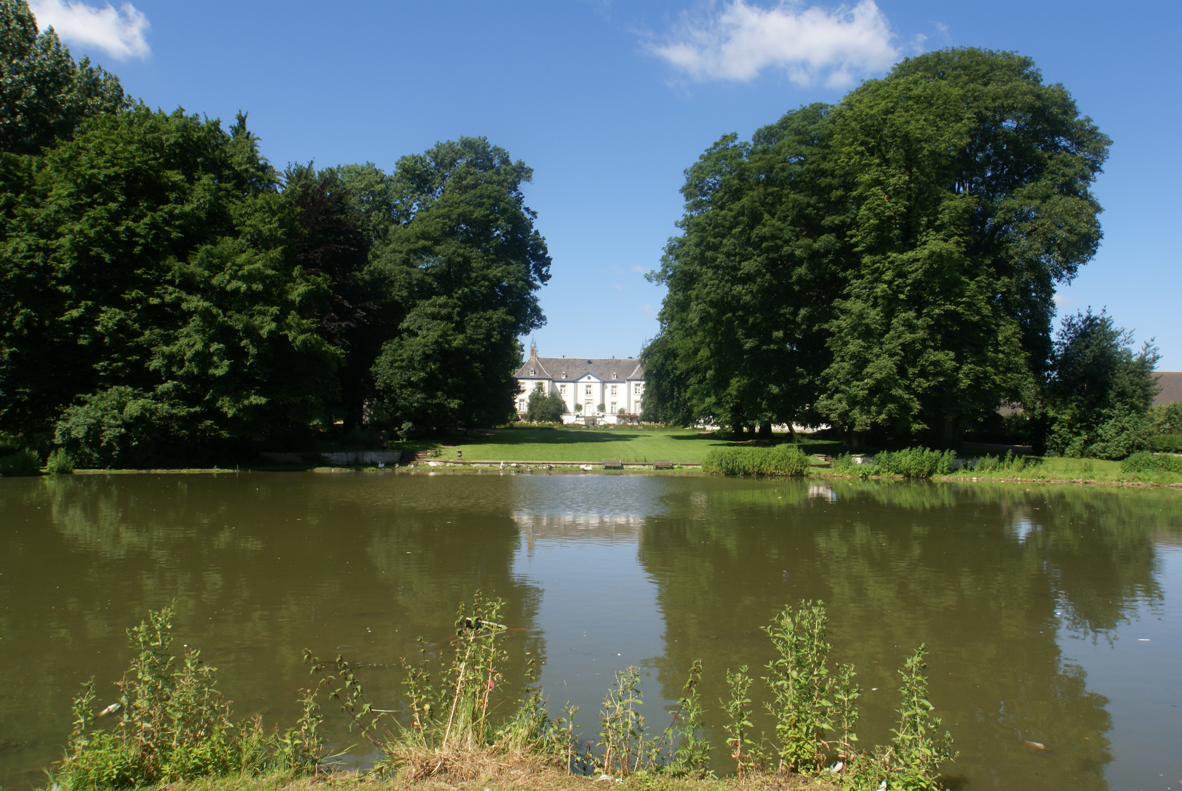 Genoelselderen (Belgium): Park and ponds of Elderen Hall